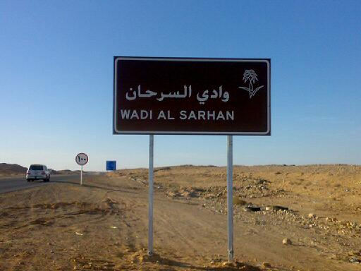 The image for bord Sirhan Valley